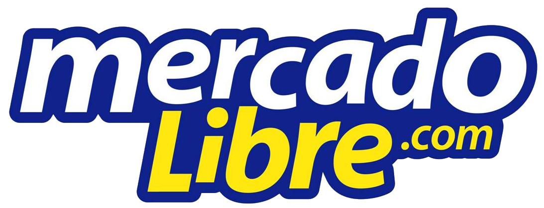 MercadoLibre logo